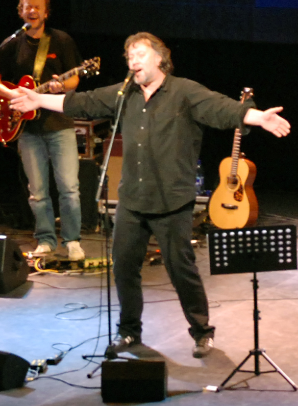 Cropped version of Bjoern eidsvaag.JPG.